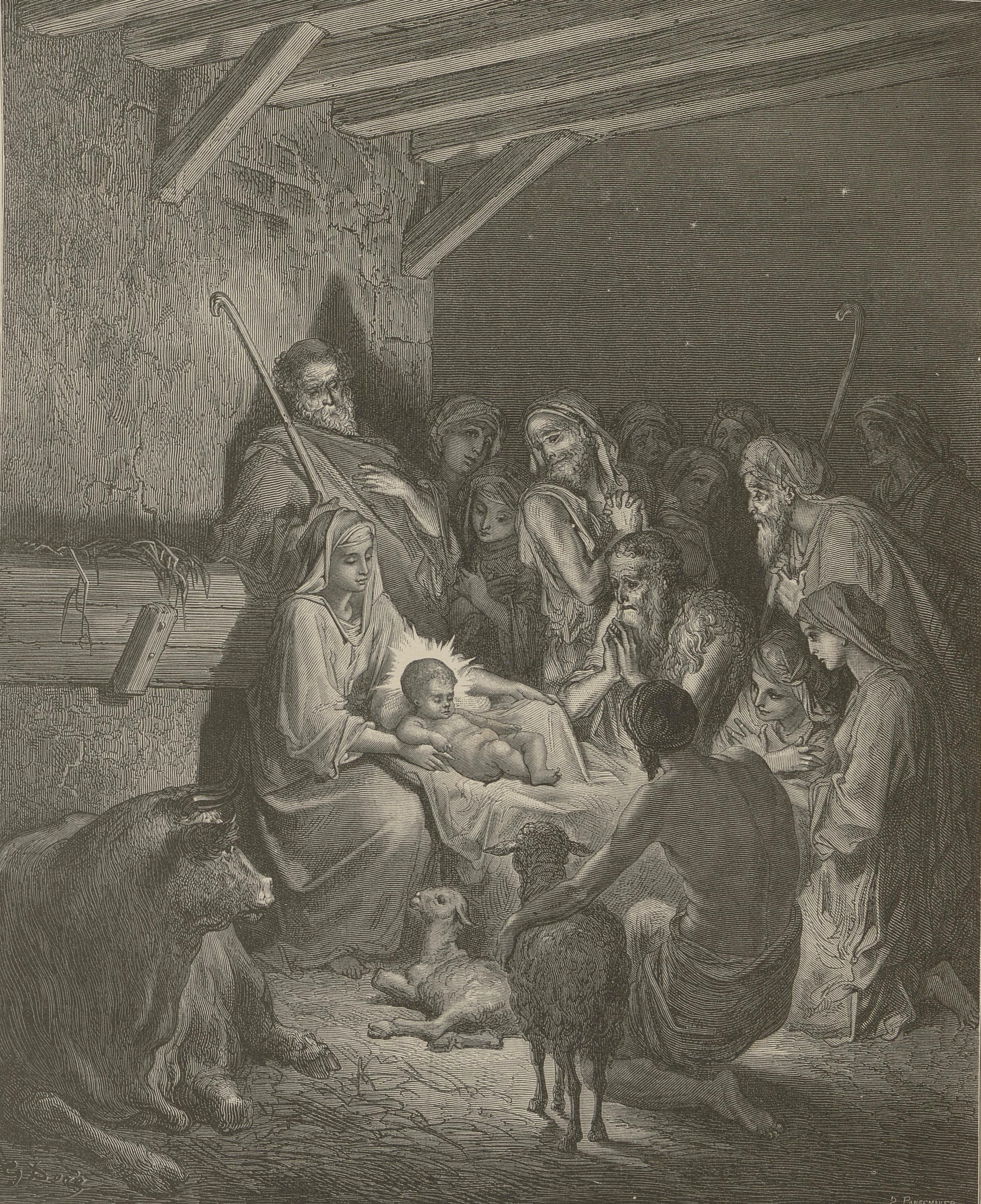 Lukas 2. 16 The birth of Jesus